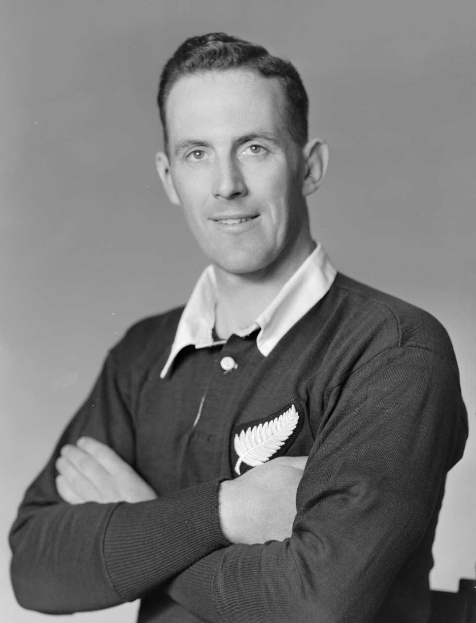 All Black player Bob Stuart